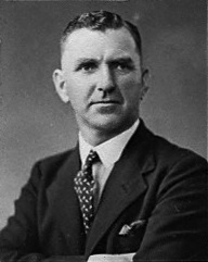 Christchurch North MP Sidney George Holland in 1935.